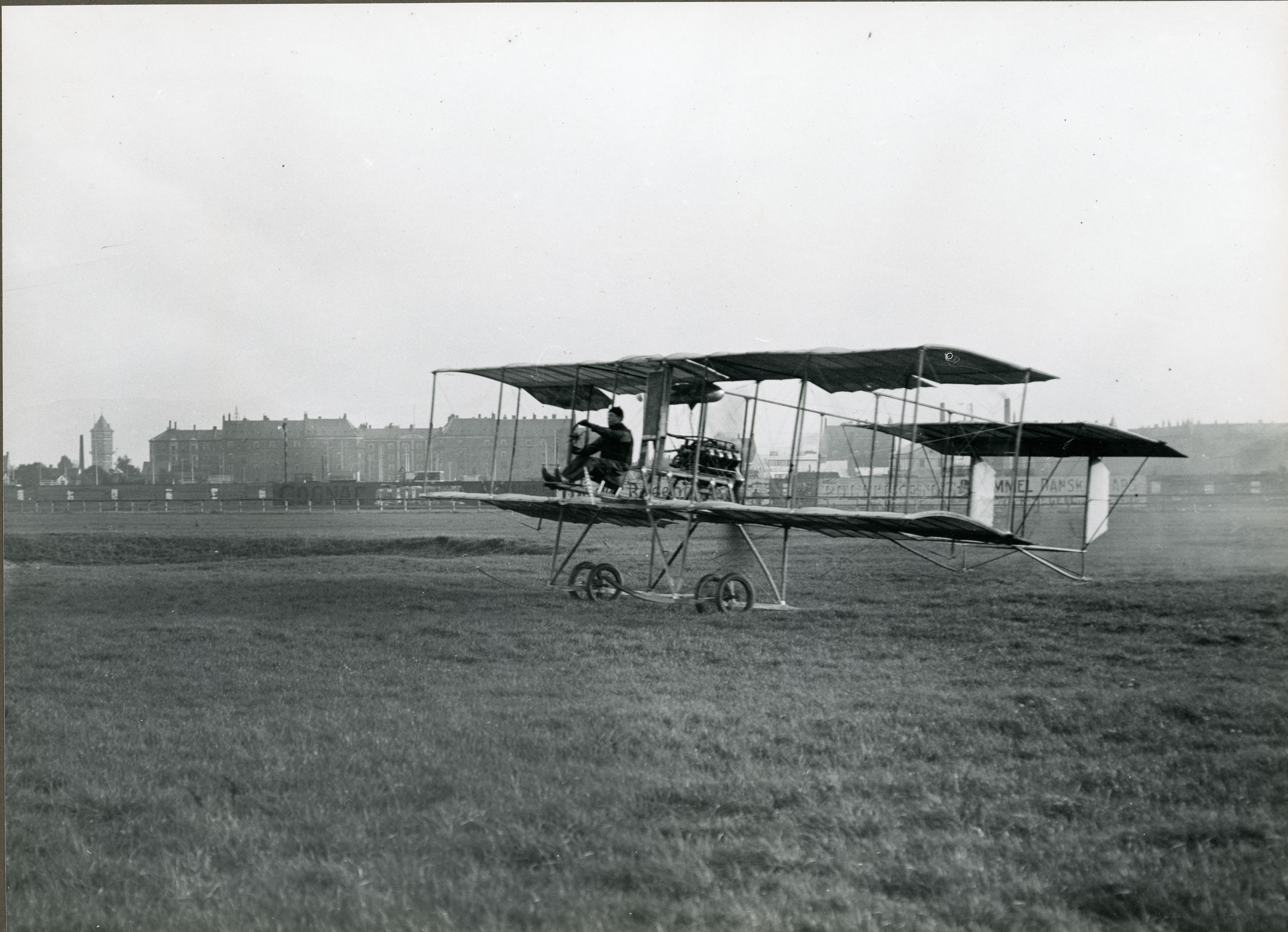 Premierleutnant J.B. Ussing in first Danish military aircraft "Glenten"